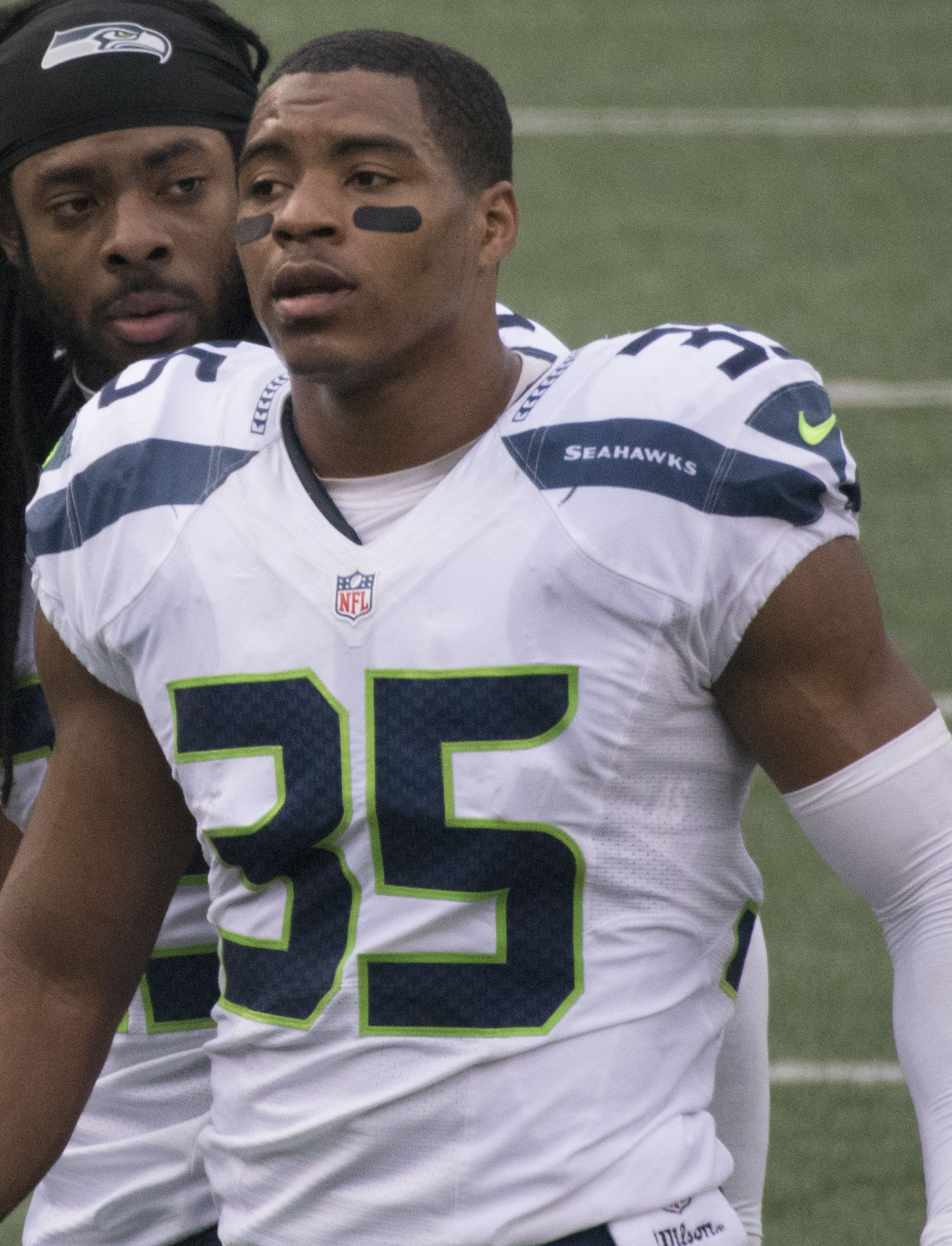 Seahawks at Ravens 12/13/15